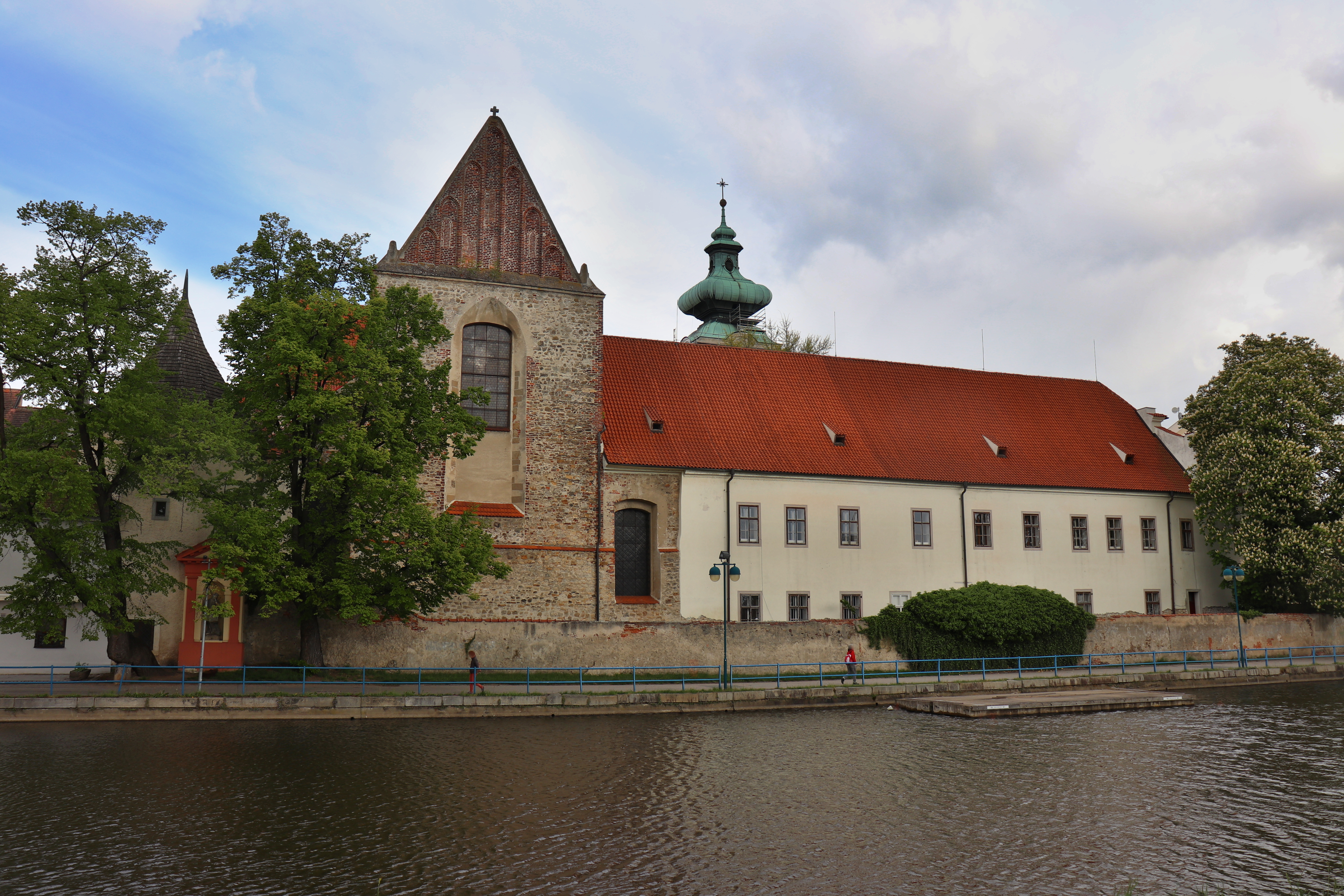 Dominican Moonastery in České Budějovice